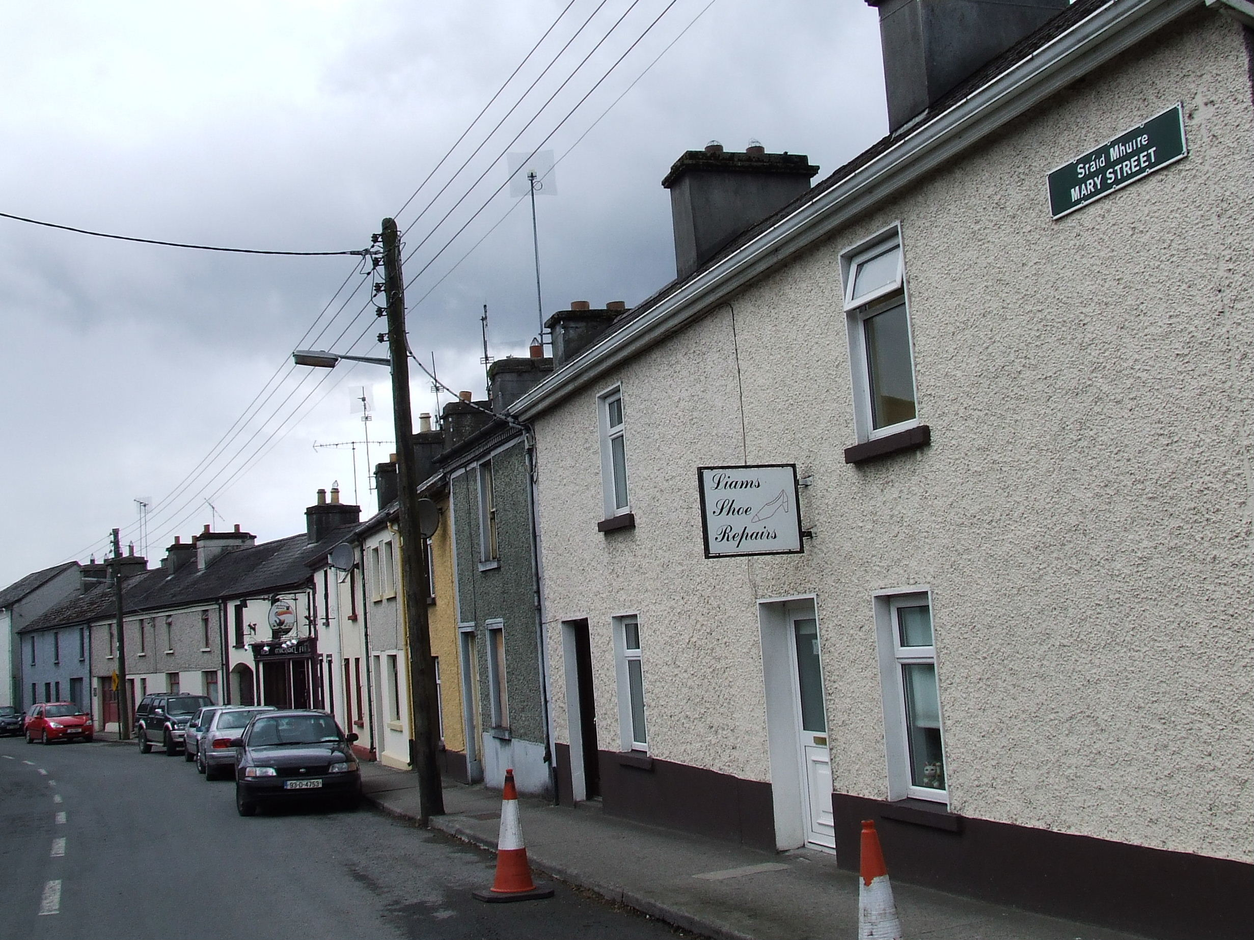 Taken from the corner of Tigh Muire, a view down Mary Strret, Templmore towards Main Street. April 2010.